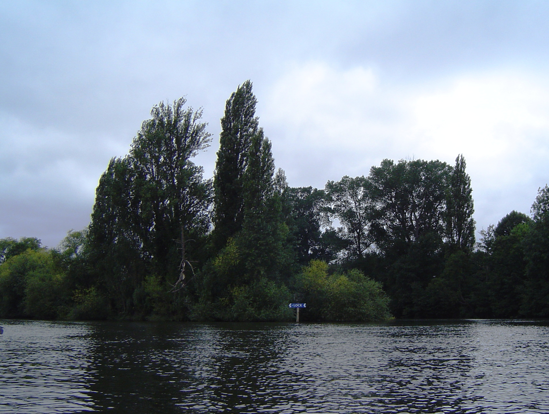 Romney Isle River Thames Windsor